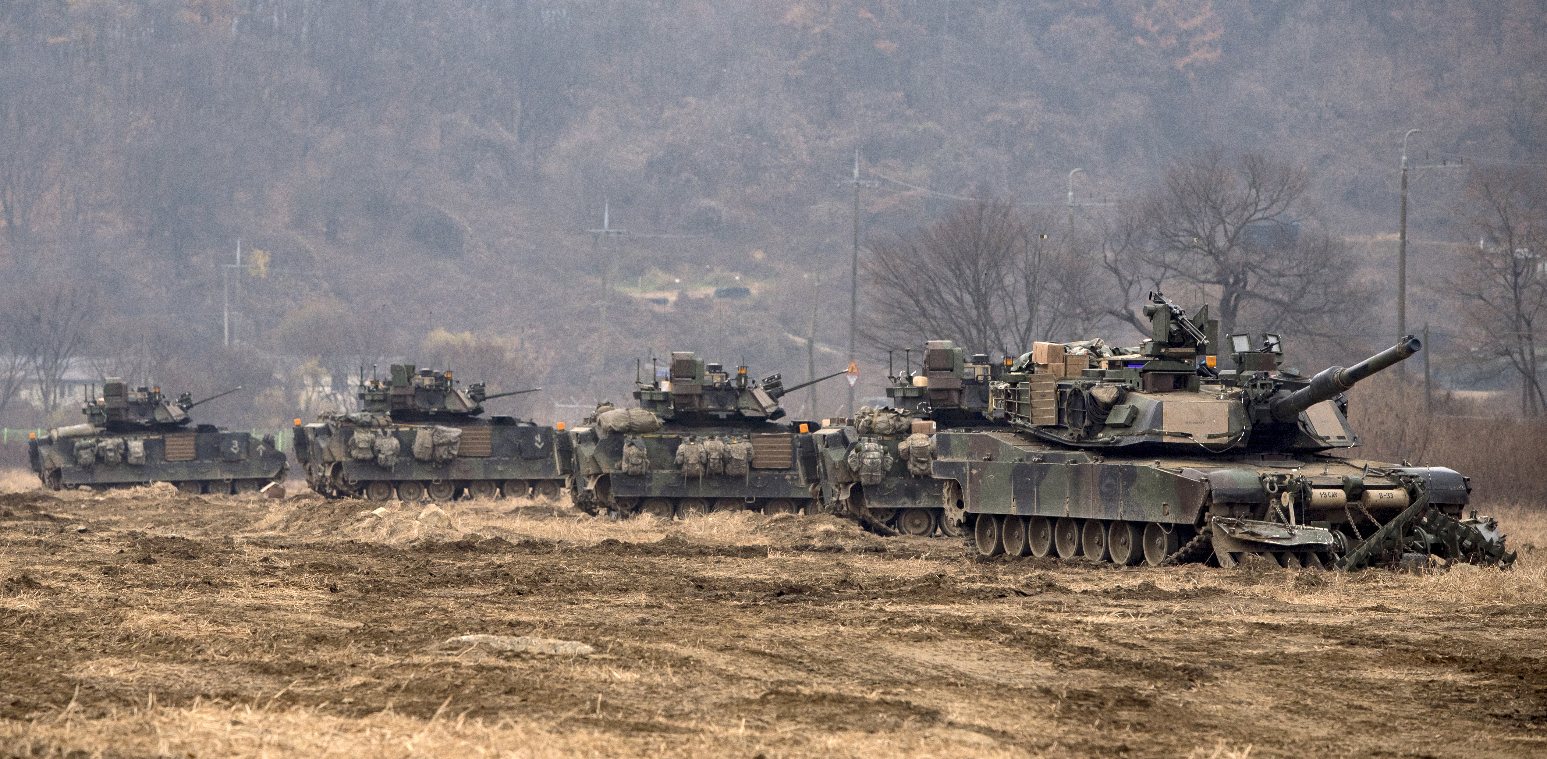 TWIN BRIDGES, Republic of Korea – Vehicles from 1st Battalion, 9th Cavalry Regiment, 2nd Armored Brigade Combat Team, 1st Cavalry Division are seen in the early morning hours of November 13, 2017. 1-9 Cav. conducted Suho Lightening; a combined training exercise with the Republic of Korea Army. 2ABCT conducted live training exercises in conjunction with Warfighter 18-02; a peninsula wide simulated, division-level training exercise incorporating U.S. and Korean armies. (2017)